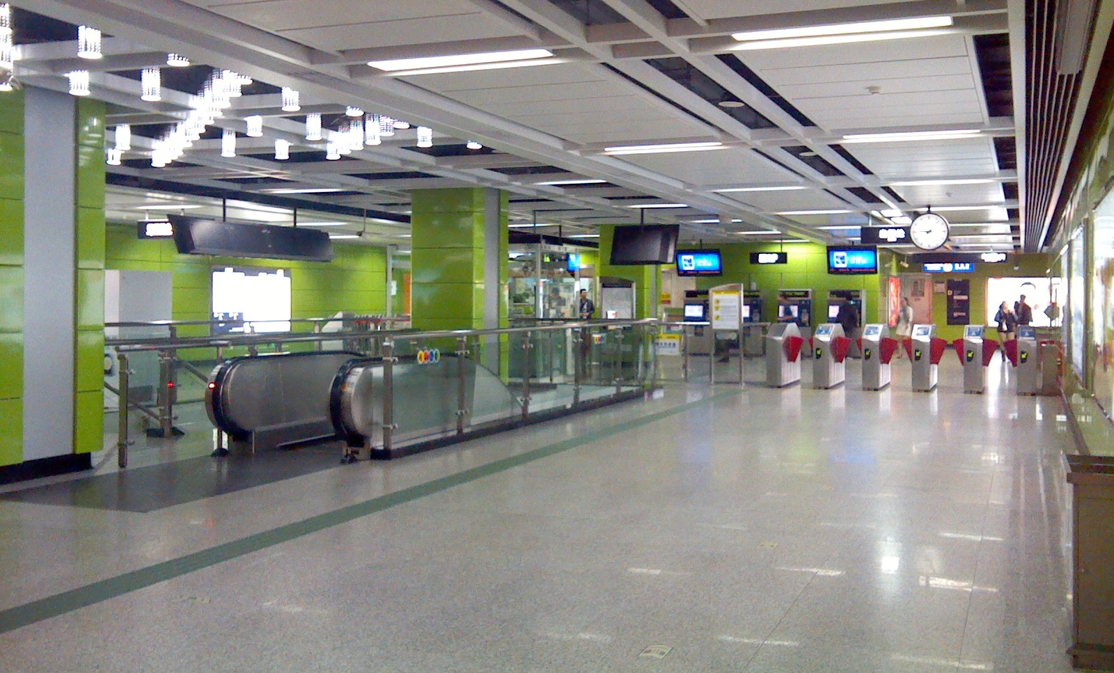 京溪南方医院站车站站厅